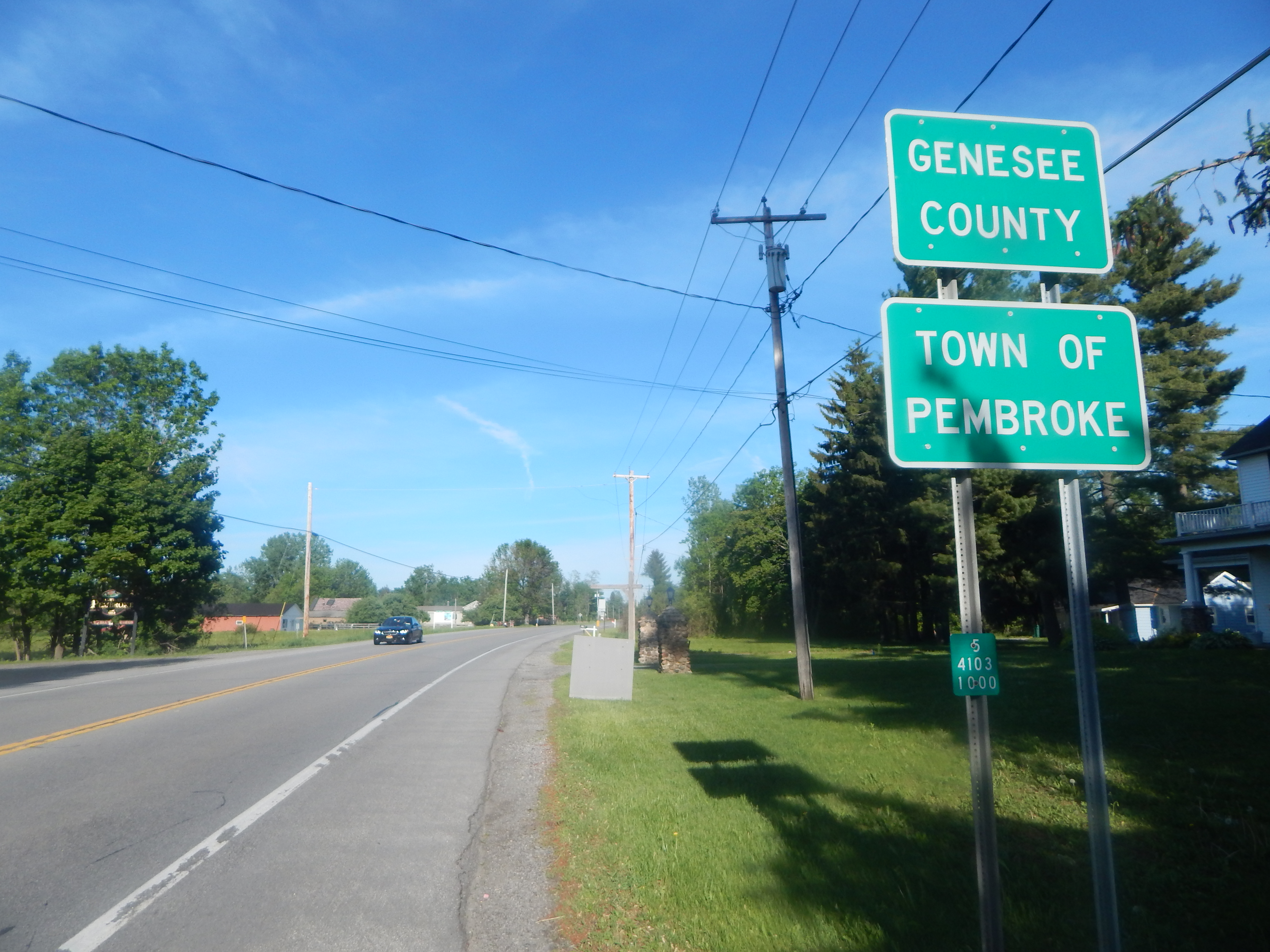 New York State Route 5 at the Genesee County line in Newstead, New York.